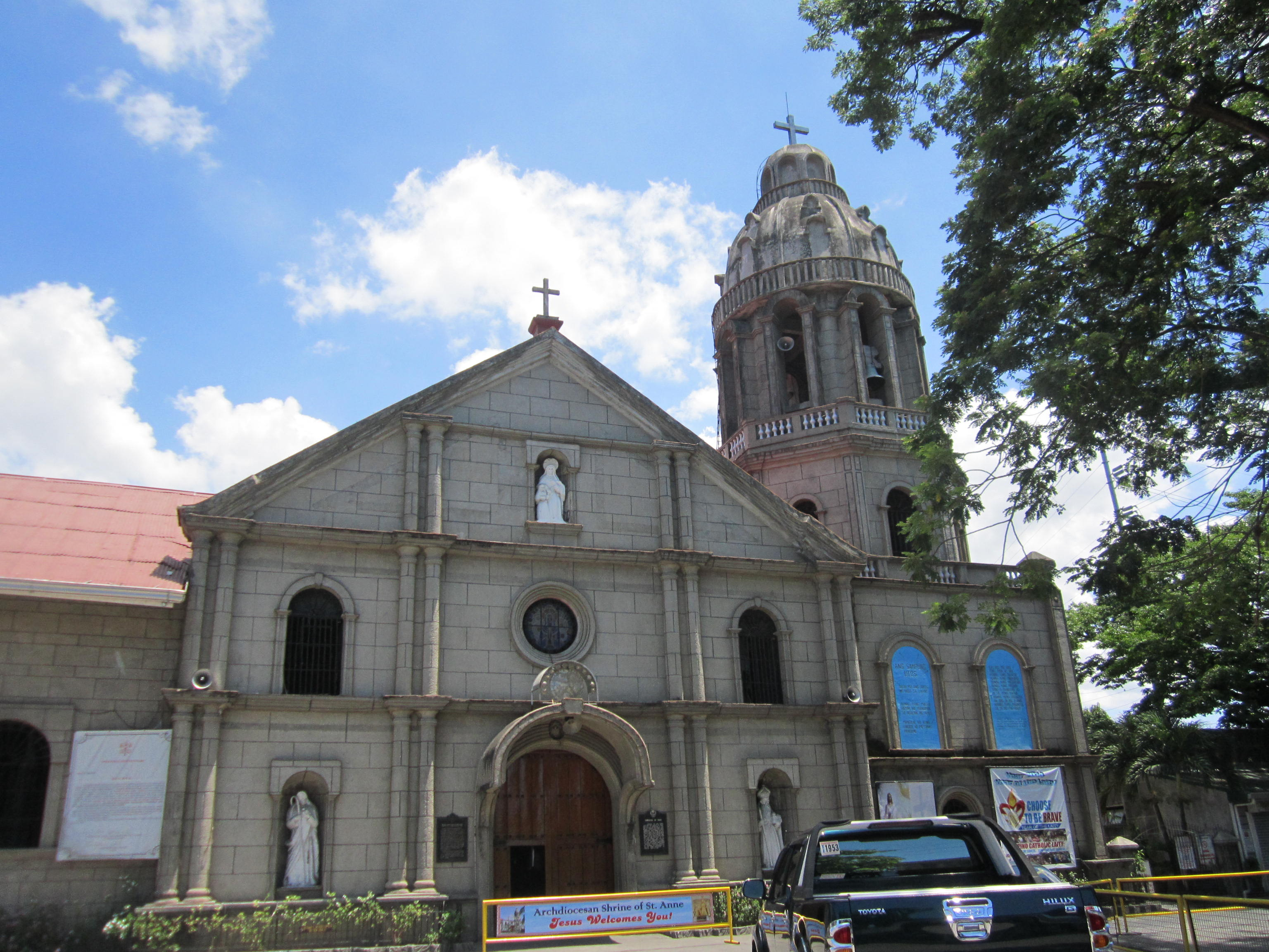 St. Anne Parish Church in Taguig is situated across Plaza Quezon and is beside Sta. Ana river